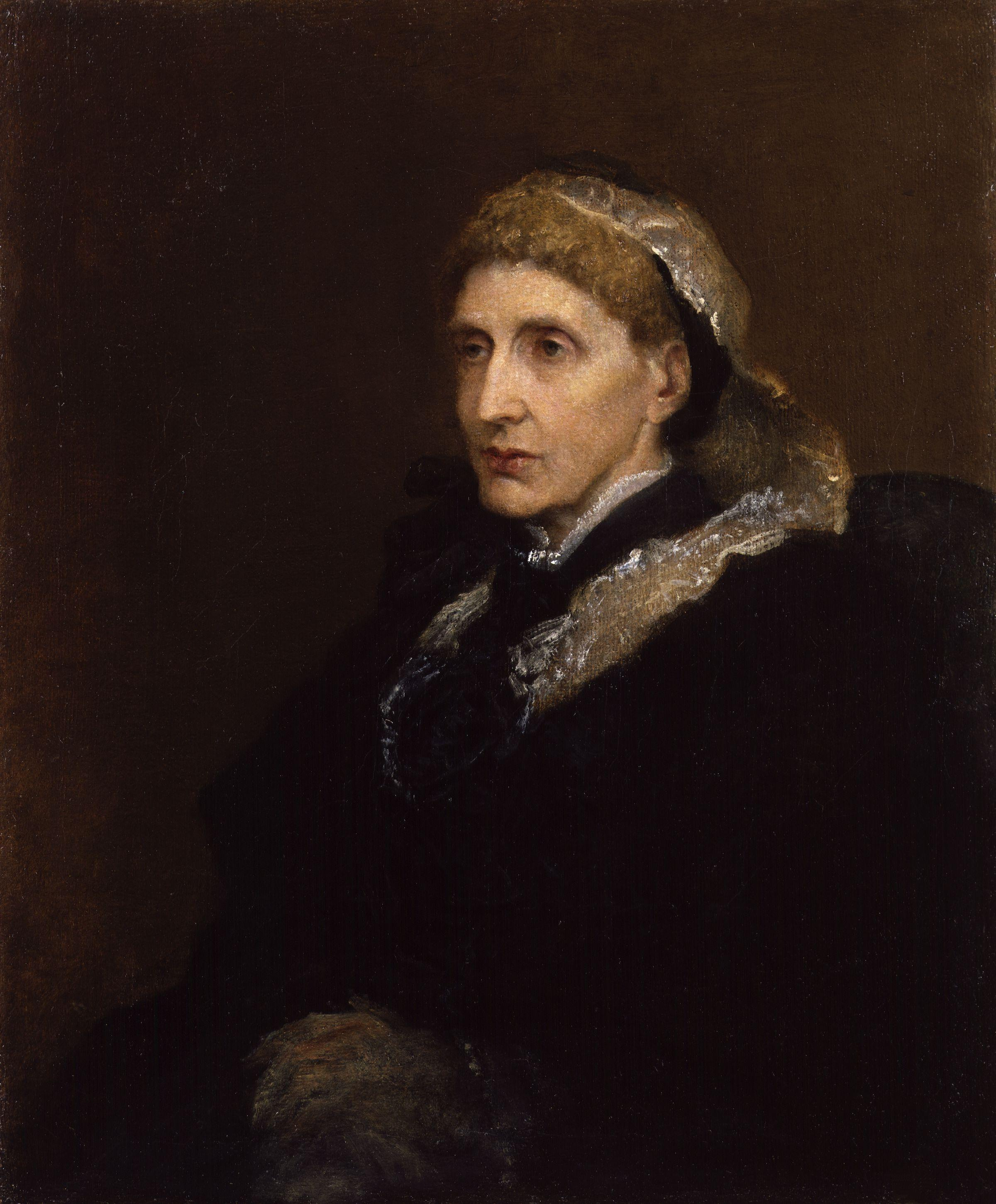 Josephine Elizabeth Butler (née Grey), by George Frederic Watts (died 1904). All images in this batch have been confirmed as author died before 1939 according to the official death date listed by the NPG.